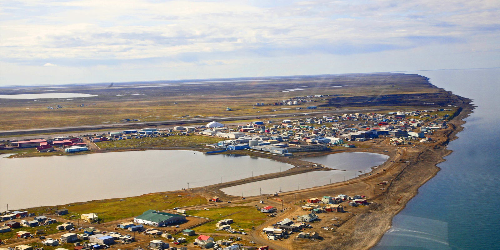 Aerial photo of Barrow, Alaska